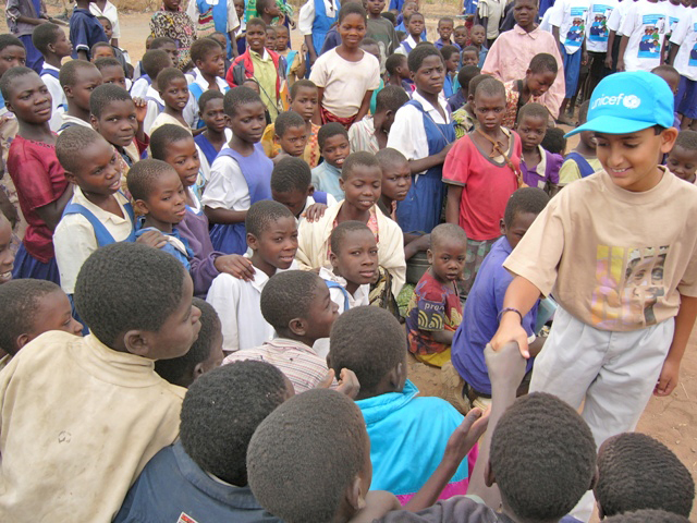 Bilaal Rajan in Malawi, Africa (July 2007)